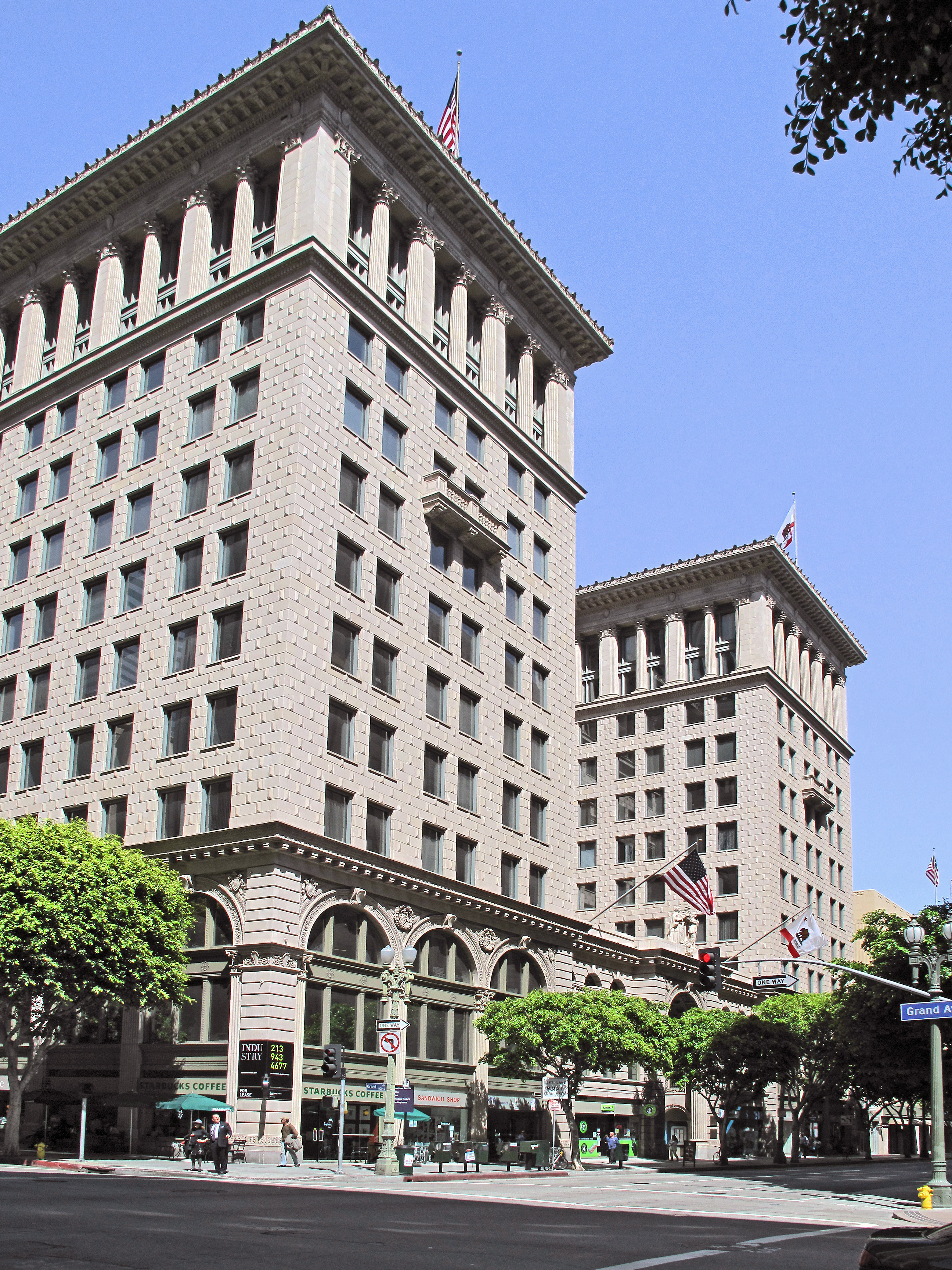 The Pacific Mutual Building, at 523 W. Sixth Street, in Downtown Los Angeles. A grand and beautiful building in the Beaux-Arts style. Los Angeles Historic-Cultural Monument #398.